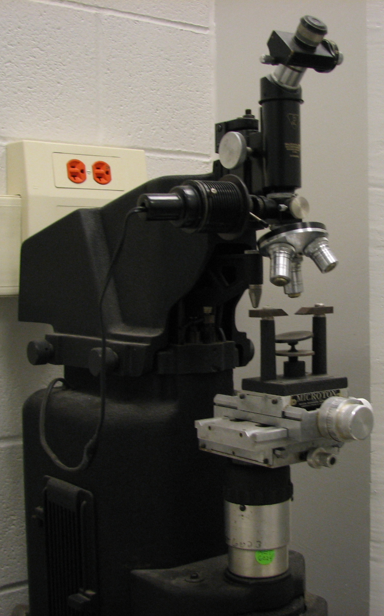 Photograph of a Vickers hardness tester